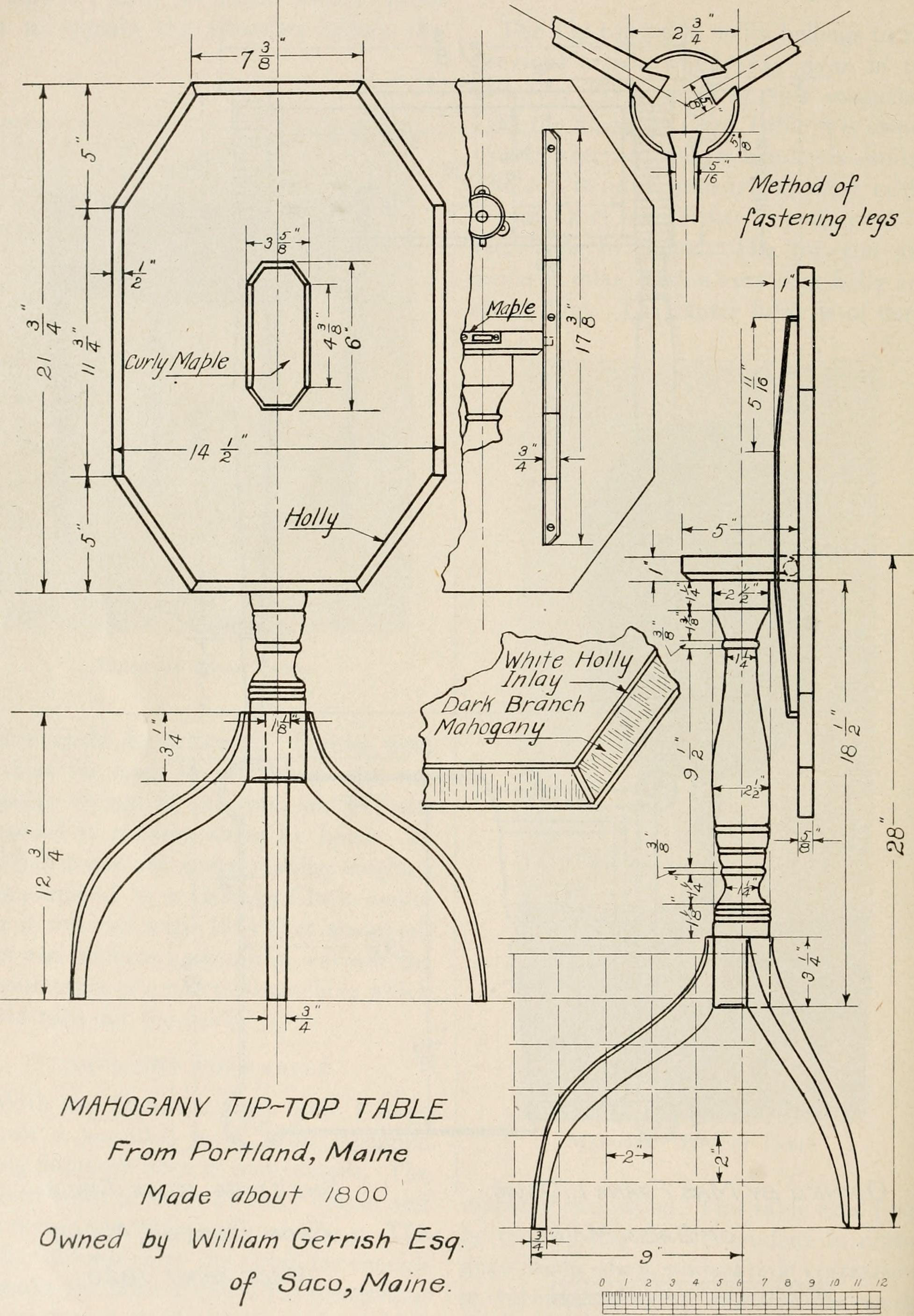 Title: Industrial Education Magazine Year: 1910 (1910s) Authors: Subjects: Publisher: Peoria Text Appearing Before Image: * Sheraton Worm TableFrom Bux ton, MaineMade about /szo 182 MANUAL TRAINING MAGAZINE Text Appearing After Image: MAHOGANY TIP-TOP TABLEFrom Port/and, MaineMade about /800Owned by William Gerrish Esqof SacOy Maine. FURNITURE FASHIONS OF LONG AGO 183 Brass